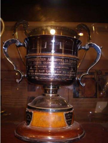 "Copa Confederación Argentina de Deportes", trophy won by the basketball team of Club Atlético San lorenzo de Almagro in the 1960s